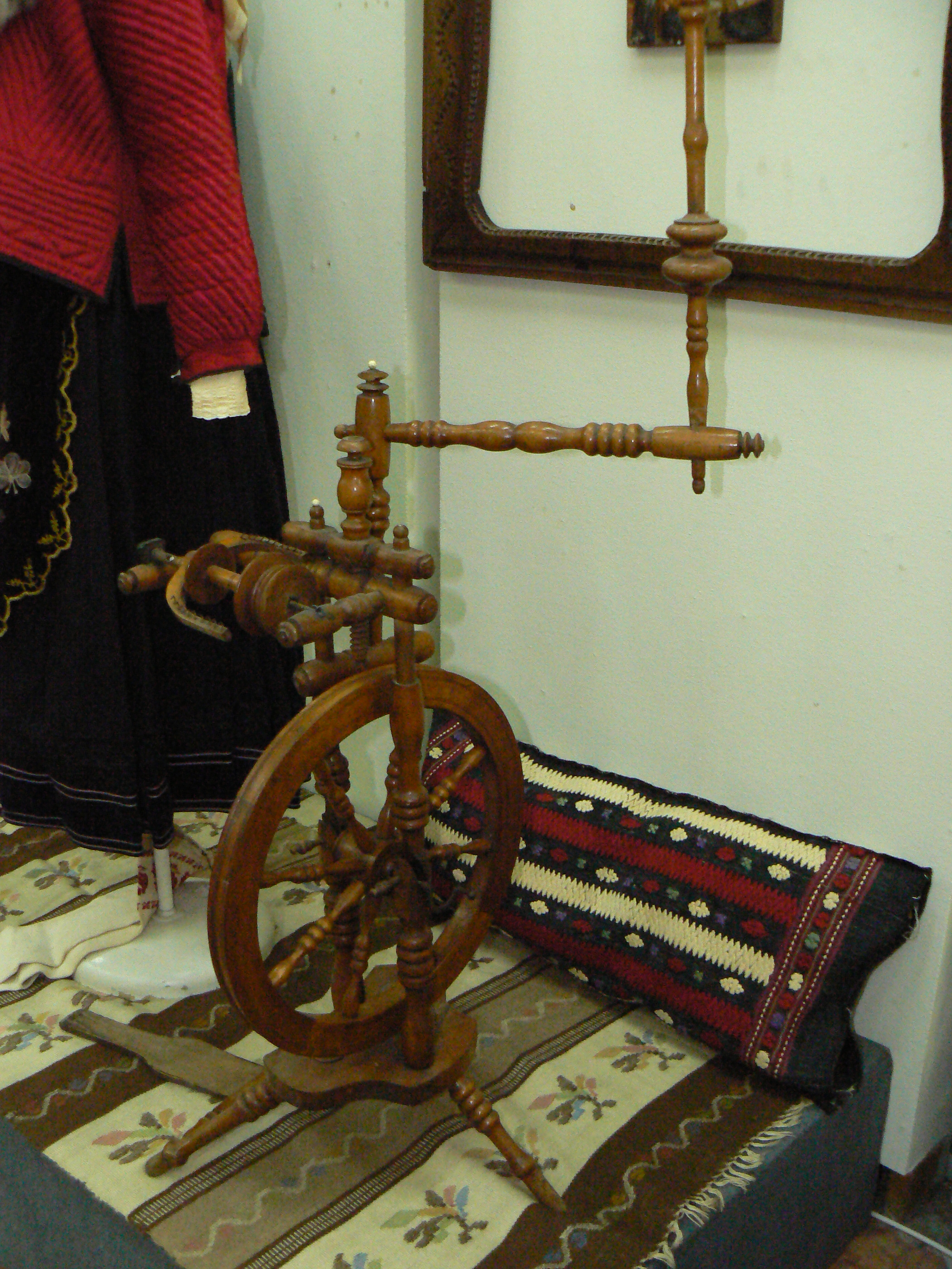 A spinning wheel, exhibits of the National Ethnographic Museum (unknown region)